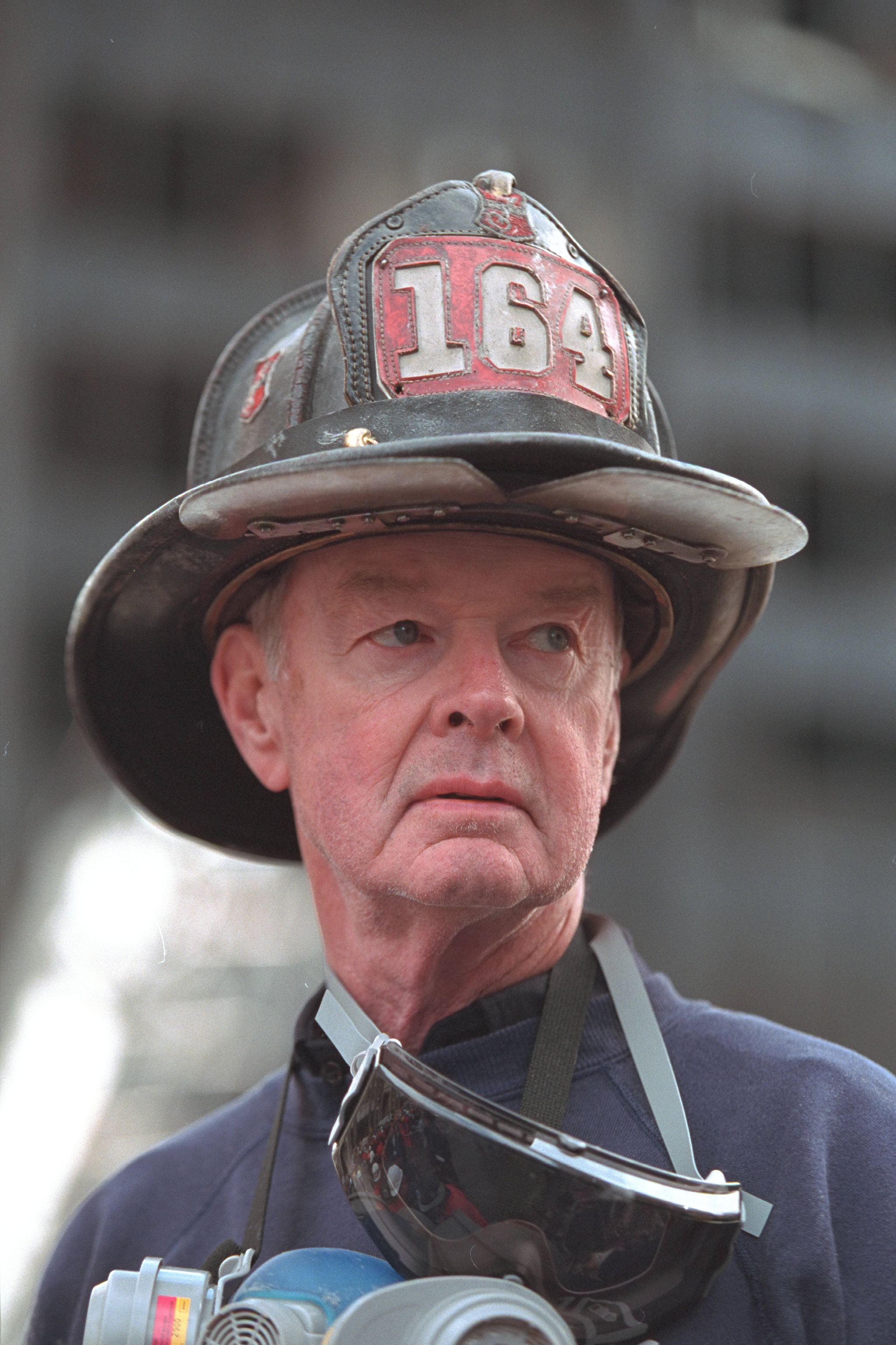 Retired New York City firefighter Bob Beckwith stands at the site of the collapsed World Trade Center in New York City Friday, Sept. 14, 2001. Photo by Paul Morse, Courtesy of the George W. Bush Presidential Library